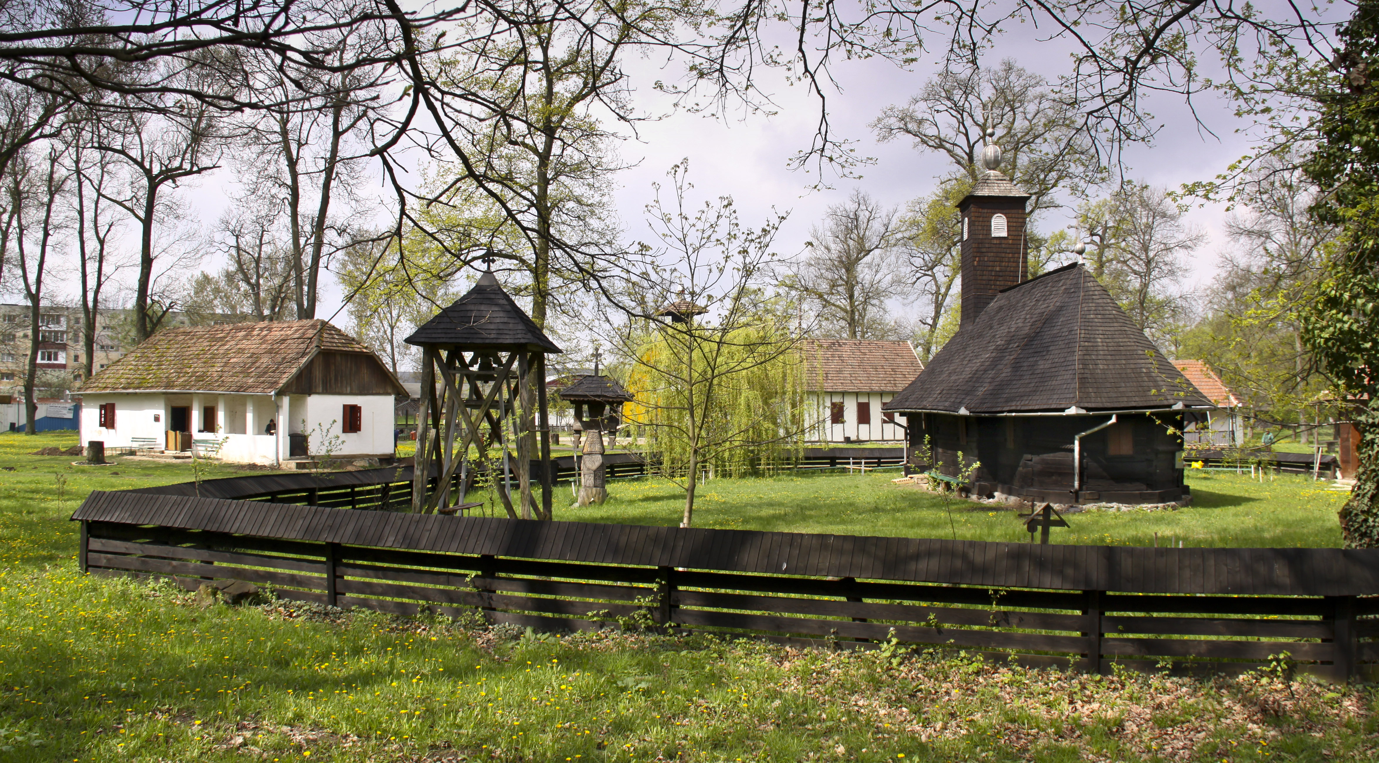 Topla, Timiş county, Romania. The wooden church transferred in the Banat Village Museum from Timişoara.